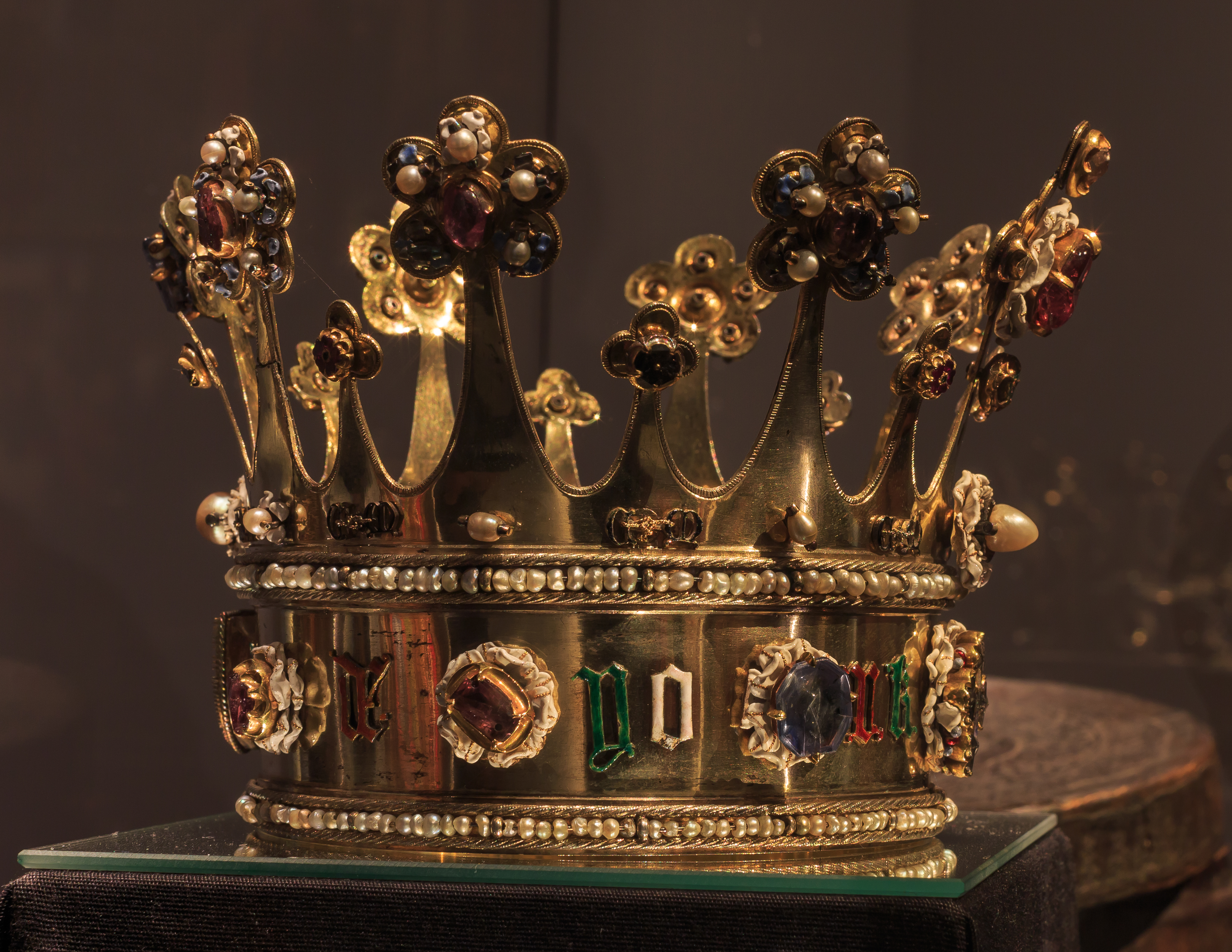 Crown of Margaret of York, made in London before 1461